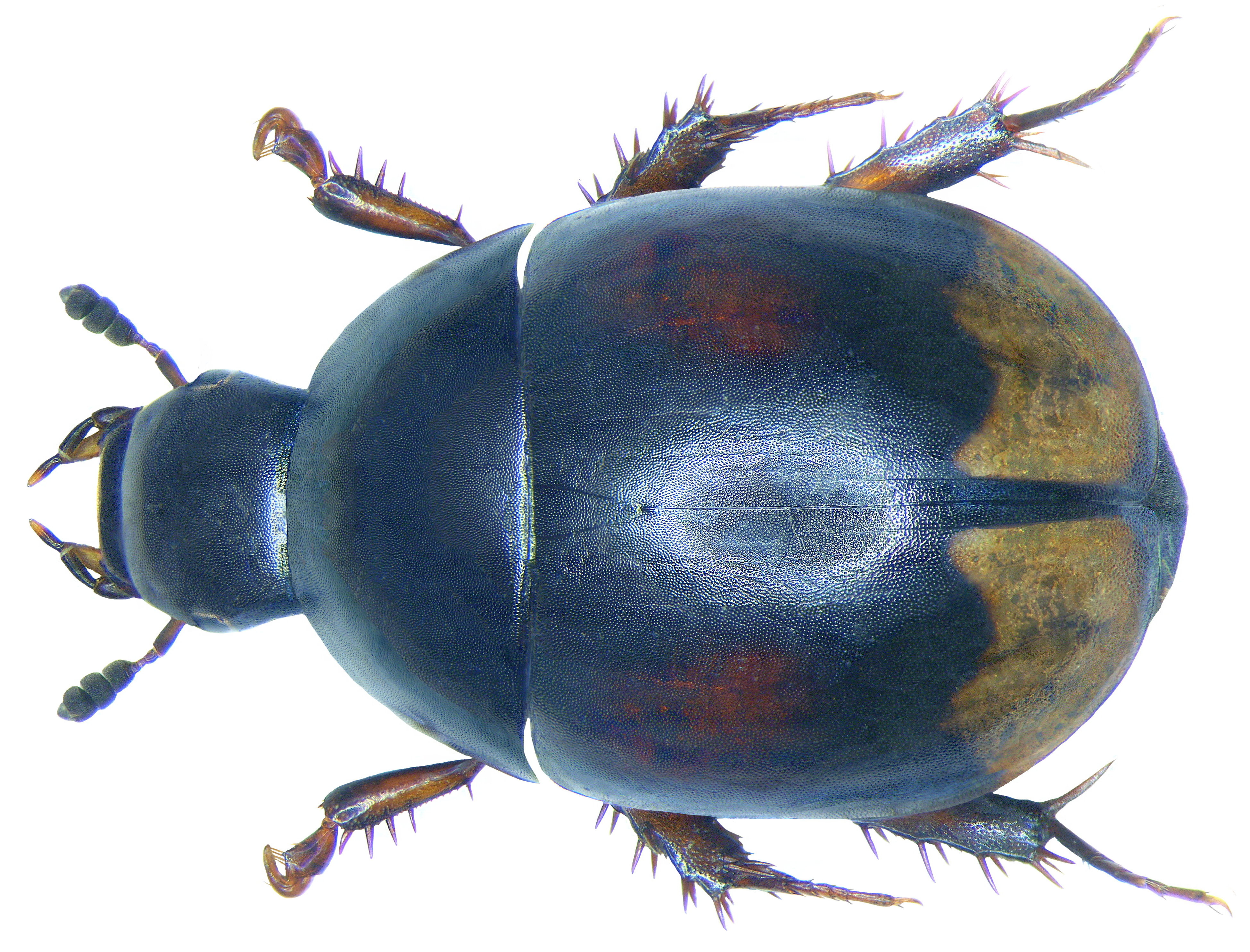 Sphaeridium lunatum, a beetle in the family Hydrophilidae Familie: Hydrophilidae Grösse: 5,5-7,5 mm Verbreitung: Europa Ökologie: im frischen Kuhdung Fundort: Helvetia, Graubünden, Ilanz leg. det. U.Schmidt, 2003 Foto: U.Schmidt, 2008